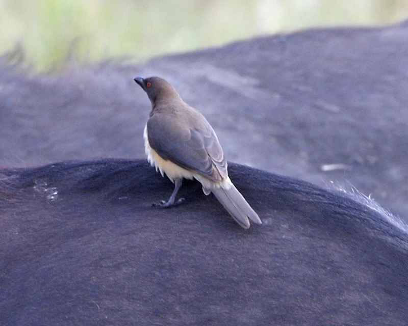 Yellow-billed Oxpecker (Buphagus africanus) - juvenile. Masai Mara, Kenya, August 28, 2008.